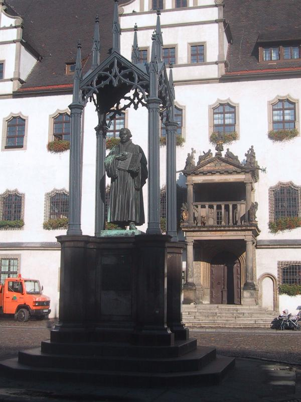 Statue of Martin Luther, Marktplatz (main square, old town), Wittenberg